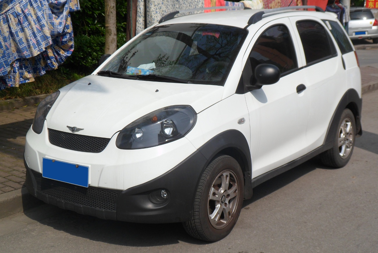 Riich X1 photographed in Shanghai, China.